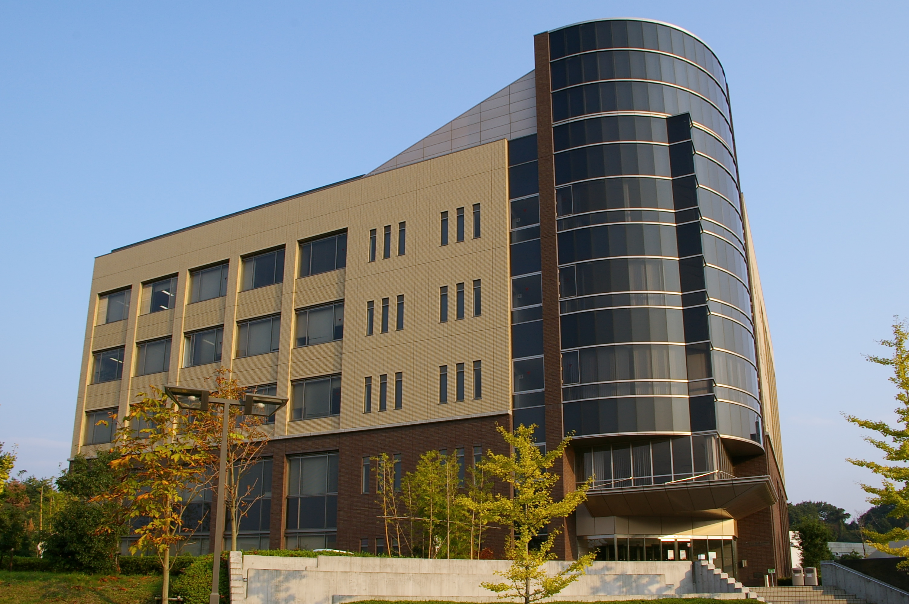 Photograph of the Ritsumeikan University Rohm Plaza of Biwako Kusatsu Campus, Ritsumeikan University in Kusatsu, Shiga Prefecture, Japan.